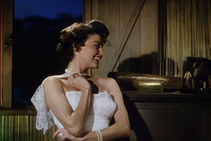 Screenshot of Ava Gardner from the trailer of the film Mogambo